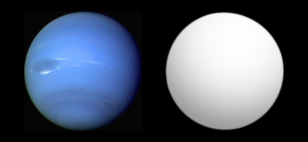 Comparison of best-fit size of the exoplanet Kepler-4 b with the Solar System planet Neptune, as reported in the Extrasolar Planets Encyclopaedia[1] as of 2010-10-03. ↑ Extrasolar Planets Encyclopaedia (2010-09-30). Retrieved on 2010-10-03.